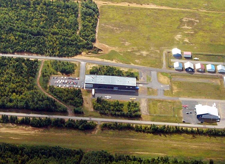 Photo of the Symphony Aircraft Industries plant taken in August 2005